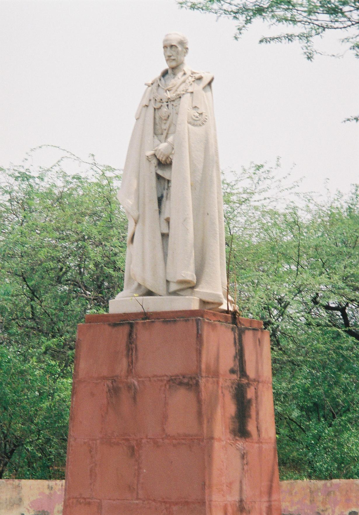 A British lord's (Freeman Freeman-Thomas, 1st Marquess of Willingdon?) statue at the Coronation Park